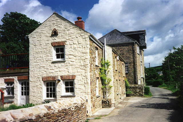 St Agnes: Tywarnhayle Mill, Mount Hawke. Cottages with converted watermill beyond – now a residence. Note the overhanging lucam – grain would have been hauled up to storage bins at the top of the mill from waiting carts